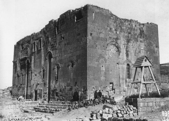 Surp Prkich Armenian Church, Shirakavan, Nowadays Turkey.